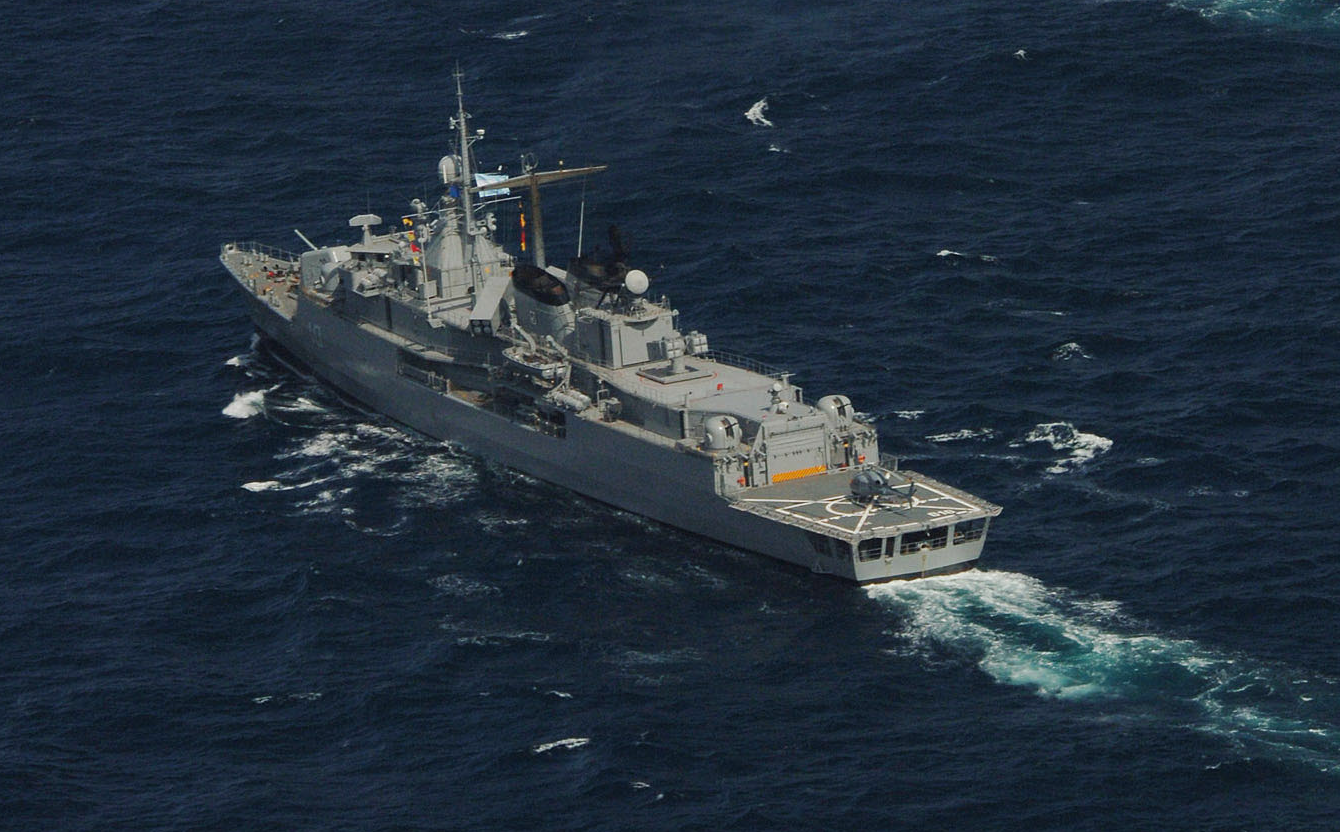 The Argentinean destroyer Almirante Brown (D 10), steam in formation off the coast of Brazil. Naval forces from Argentina, Brazil, Spain, Uruguay and the United States are participating in UNITAS 47-06 Atlantic phase. This is a U.S. Southern Command-sponsored exercise that enhances friendly, mutual cooperation and understanding between participating navies by enhancing interoperability in naval operations among the nations of the Western Hemisphere. Sonstiges: Bildausschnitt